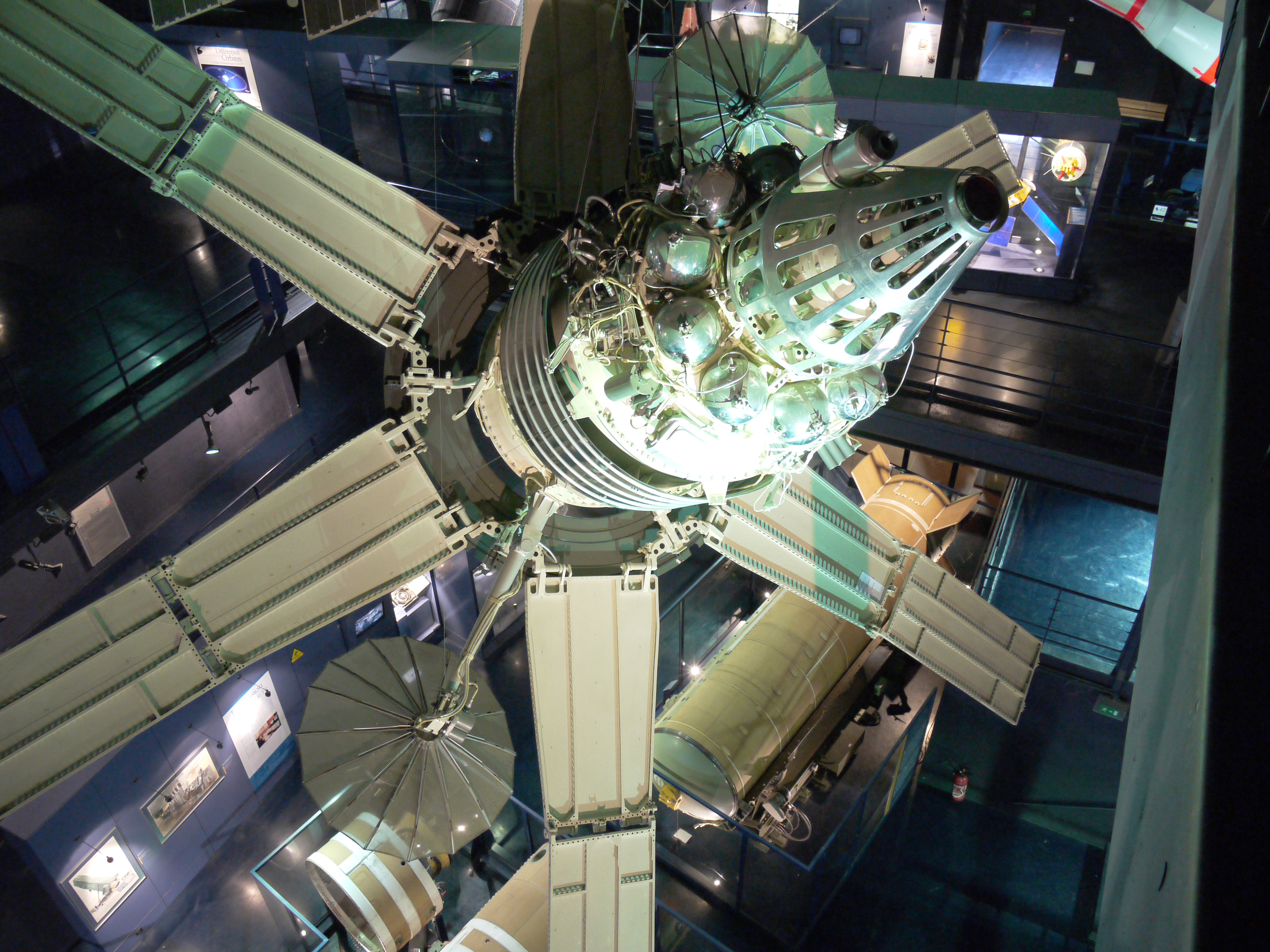 Russian Communication satellite Molnyia 1A (1965), Museum of Air and Space Paris, Le Bourget (France)